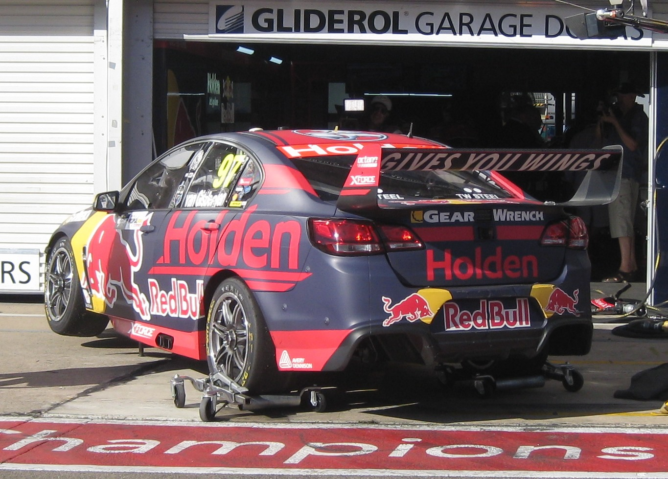 The Holden Commodore VF of Shane van Gisbergen at the 2017 Clipsal 500 Adelaide